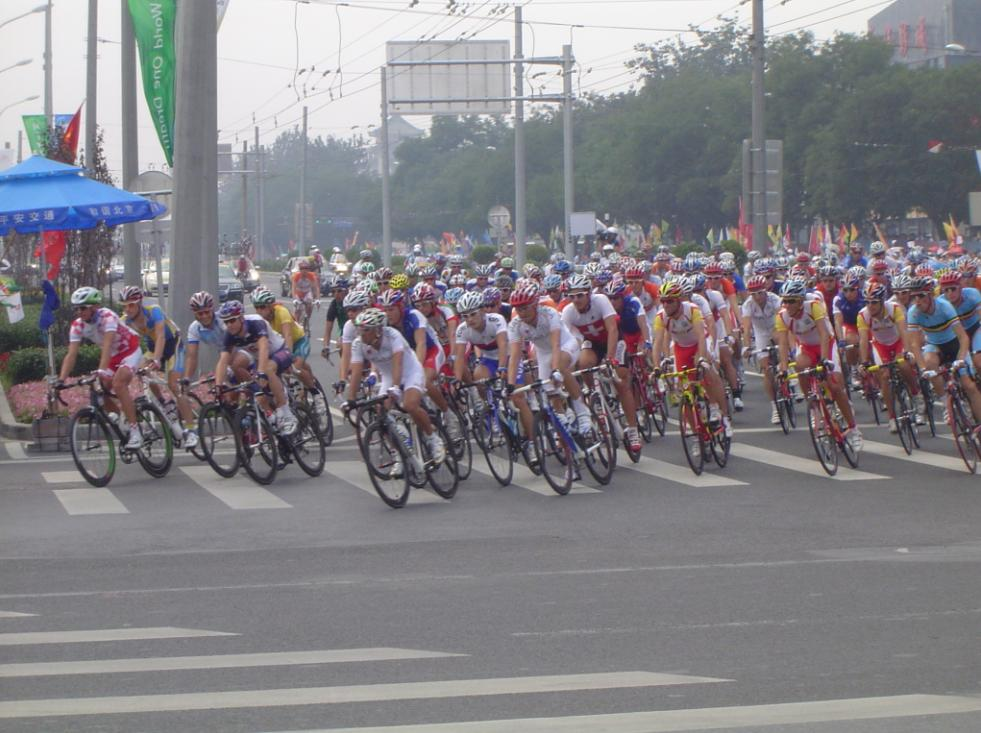 The field of the men's cycling road race at the 2008 Summer Olympics. Crossing: Yongdingmennei Dajiei - Zhushikou Dongdajie